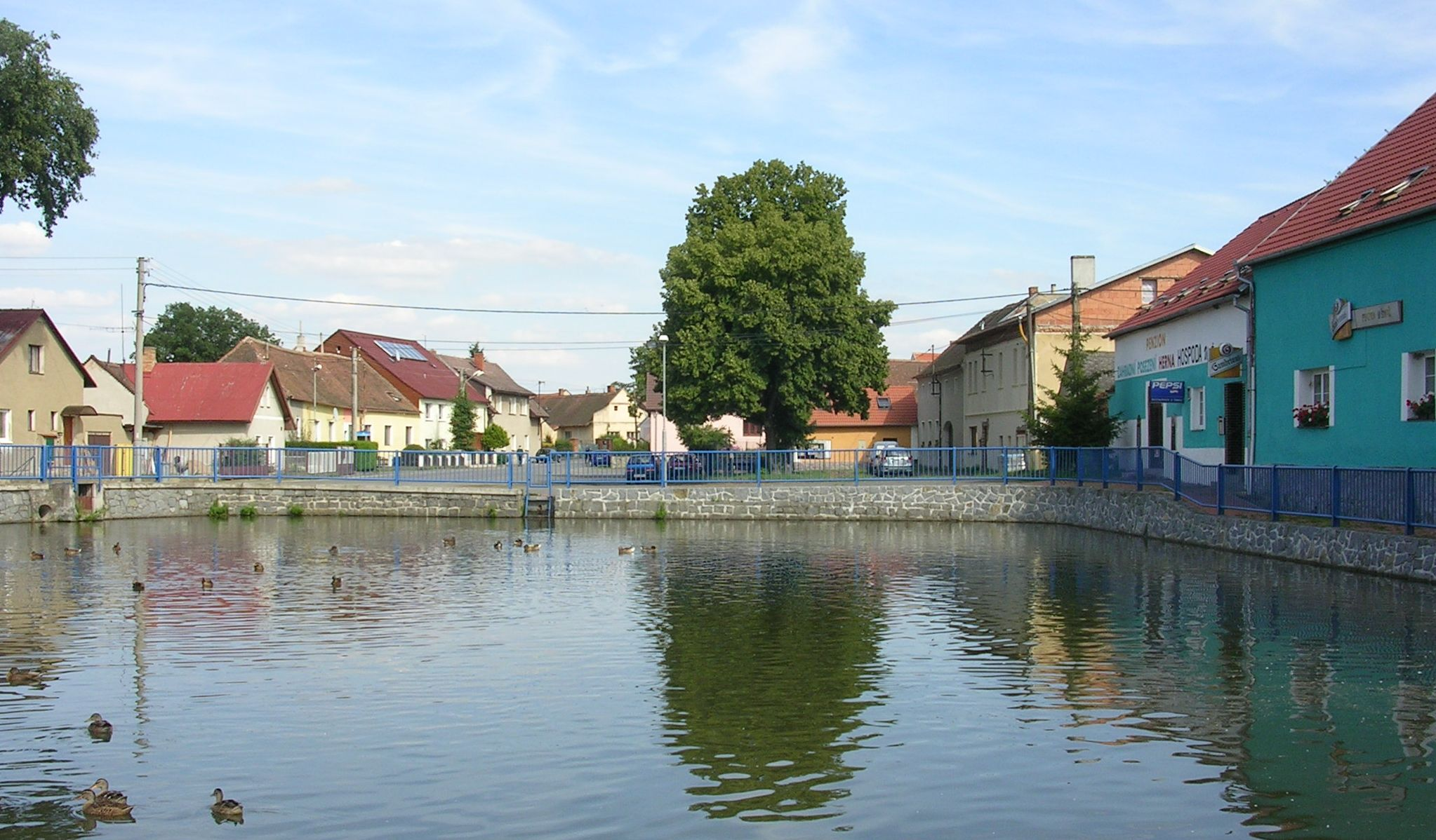 Příčovy, Příbram District, Central Bohemian Region, the Czech Republic.